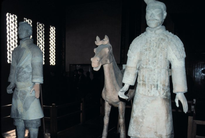 Qin soldier, at Xian, People's Republic of China.